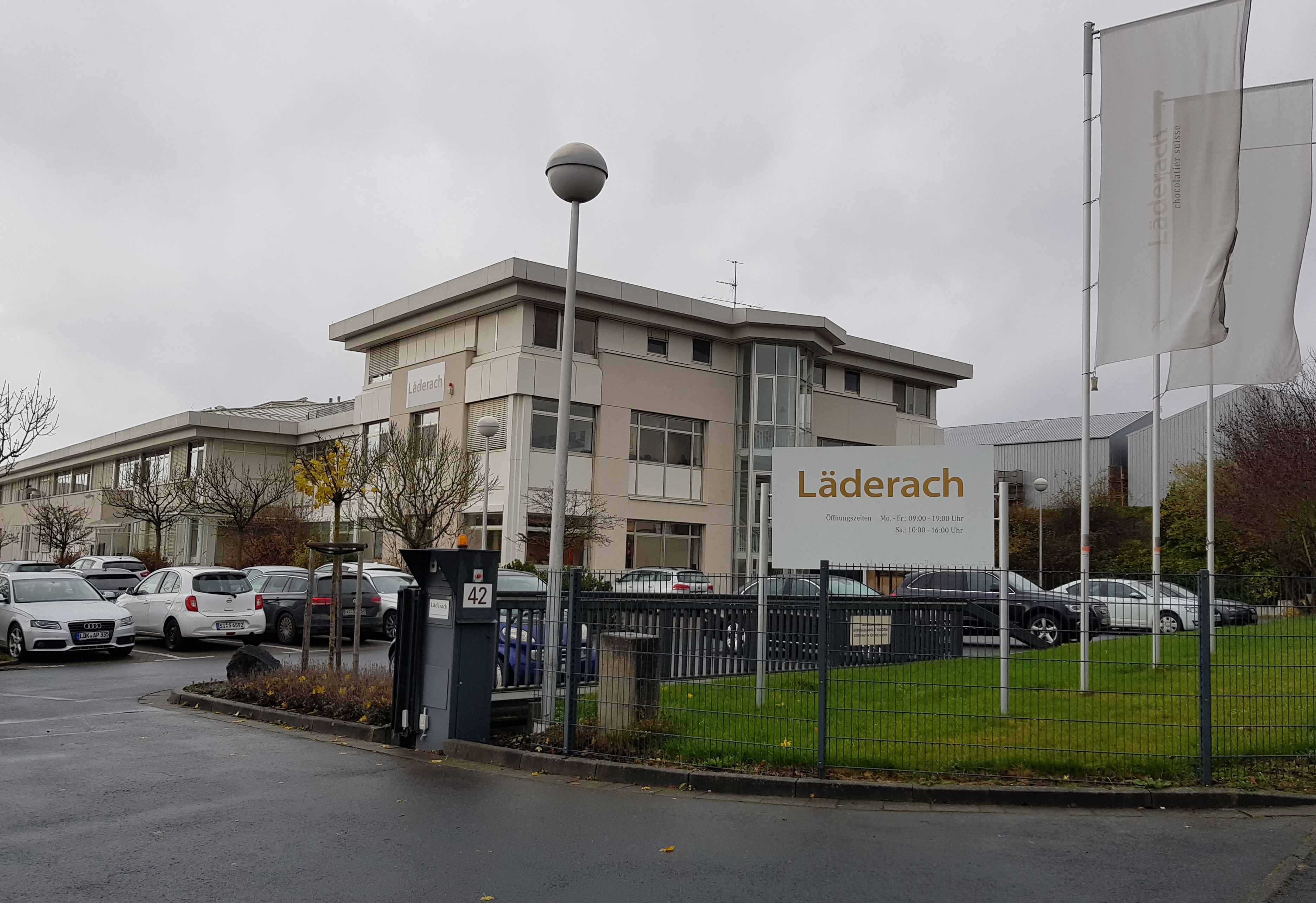 Schokoladen-/Pralinen-Manufaktur Confiseur Läderach Deutschland GmbH & Co. KG in Dillenburg-Manderbach